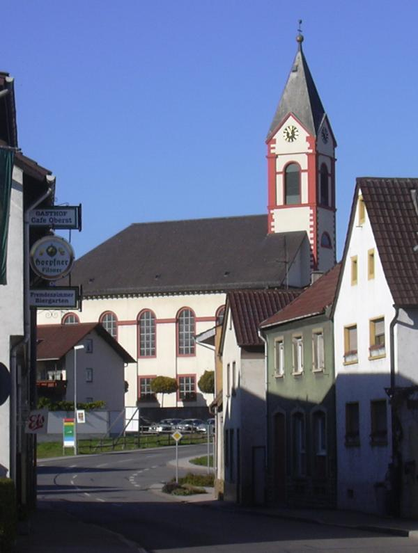 Church and main street of Unteröwisheim, Germany